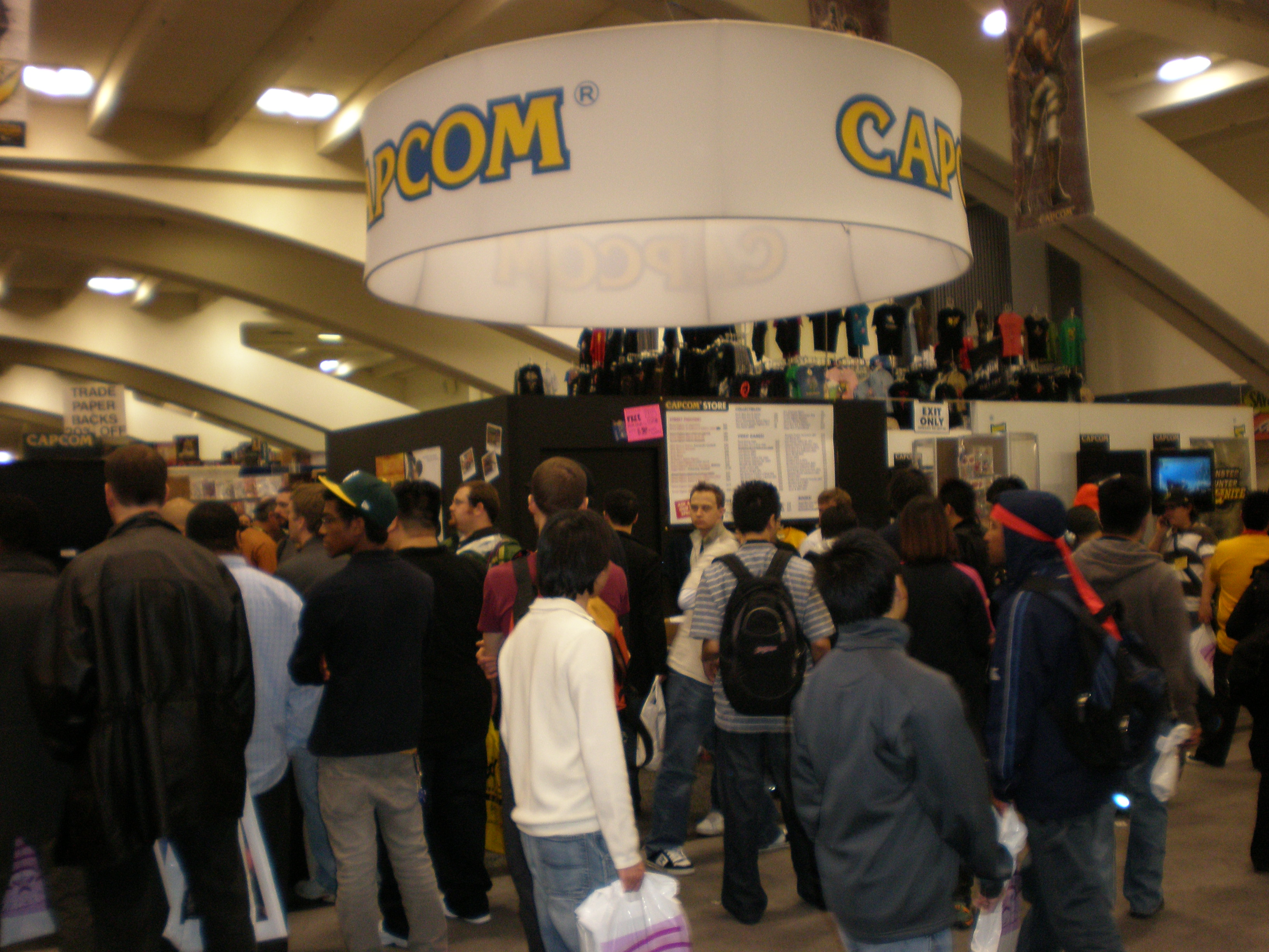 The Capcom booth and gaming stations at WonderCon 2009.